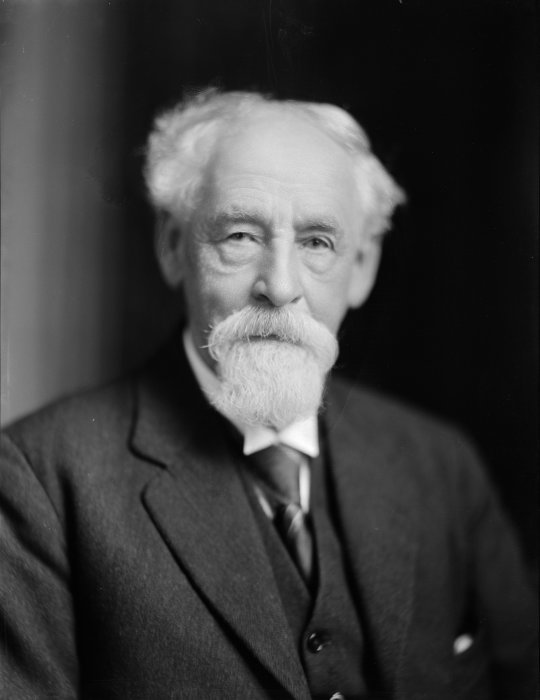 William Earnshaw, photographed by S P Andrew Ltd, on the 21st of October, 1927.